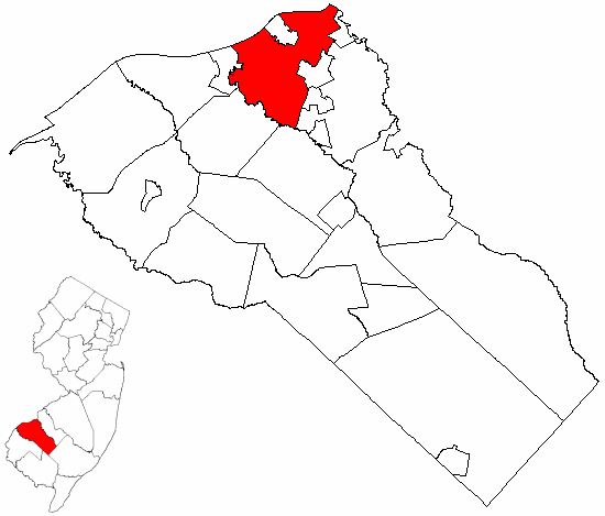 Map of Gloucester County highlighting West Deptford Township